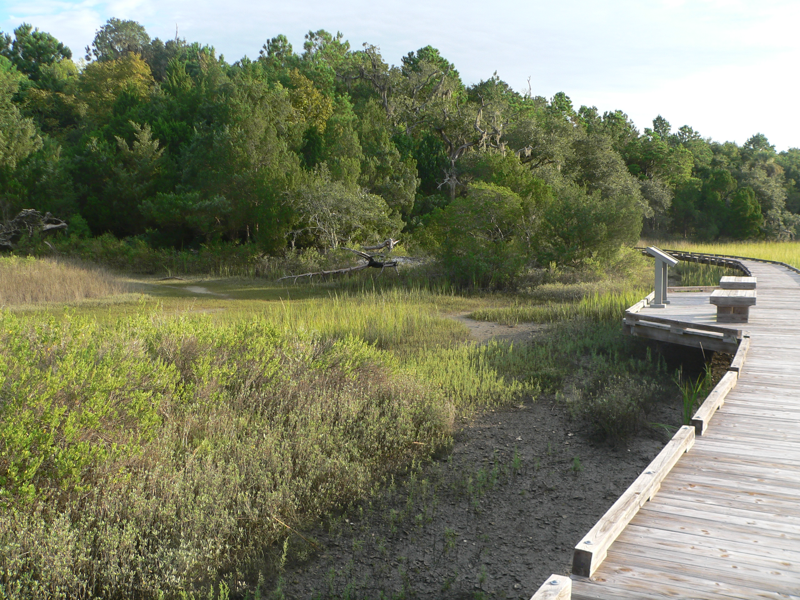 Sewee Shell Ring, located south of Awendaw, South Carolina in Francis Marion National Forest. Southeast side, looking northeast along boardwalk.